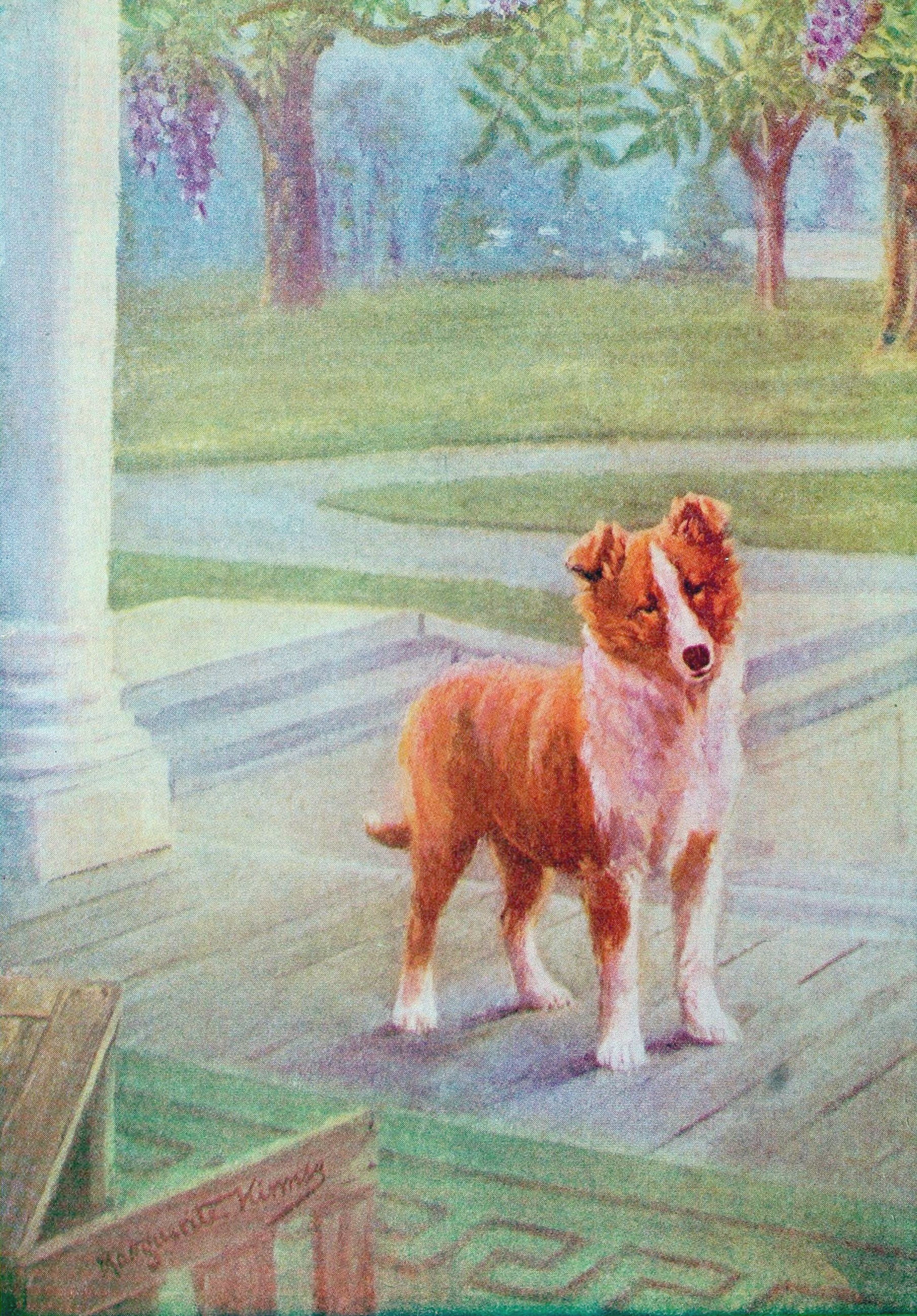 Drawing of a young Sunnybank Lad, a Rough Collie, on the porch of his house